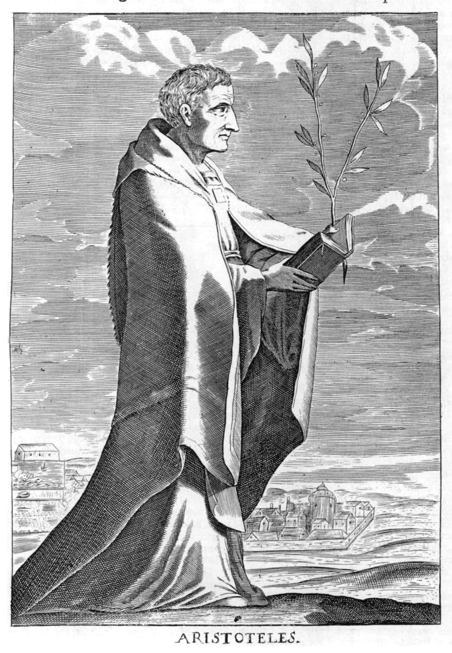 Aristotle, ancient Greek philosopher. From Thomas Stanley, (1655), The history of philosophy: containing the lives, opinions, actions and Discourses of the Philosophers of every Sect, illustrated with effigies of divers of them.